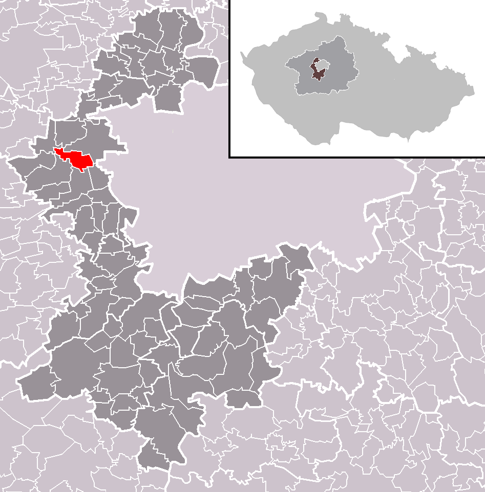 Location of Chýně municipality within Prague-West District and administrative area of Černošice as a Municipality with Extended Competence.